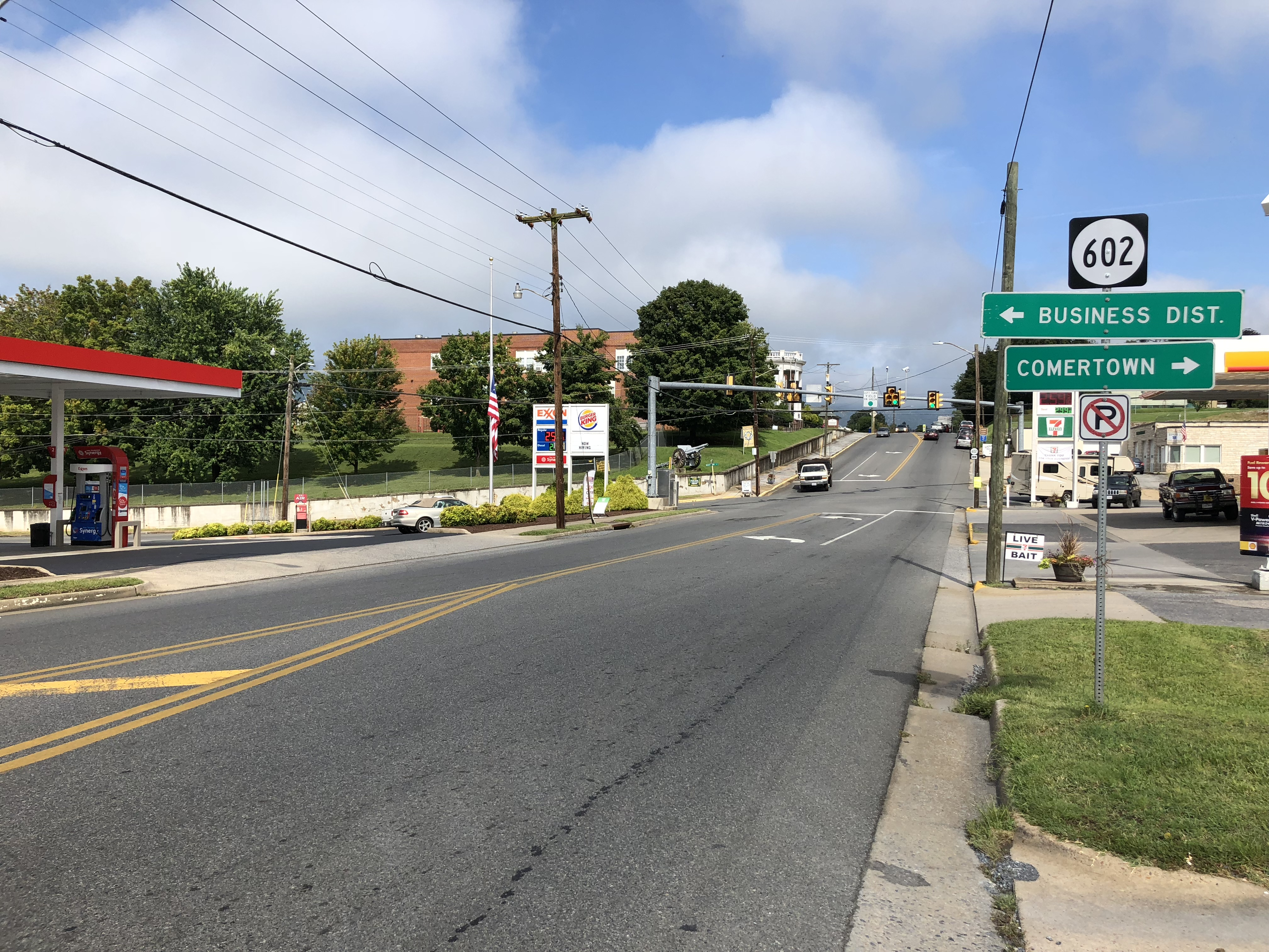 View north along U.S. Route 340 (4th Street) just south of Virginia State Route 602 (Maryland Avenue) in Shenandoah, Page County, Virginia